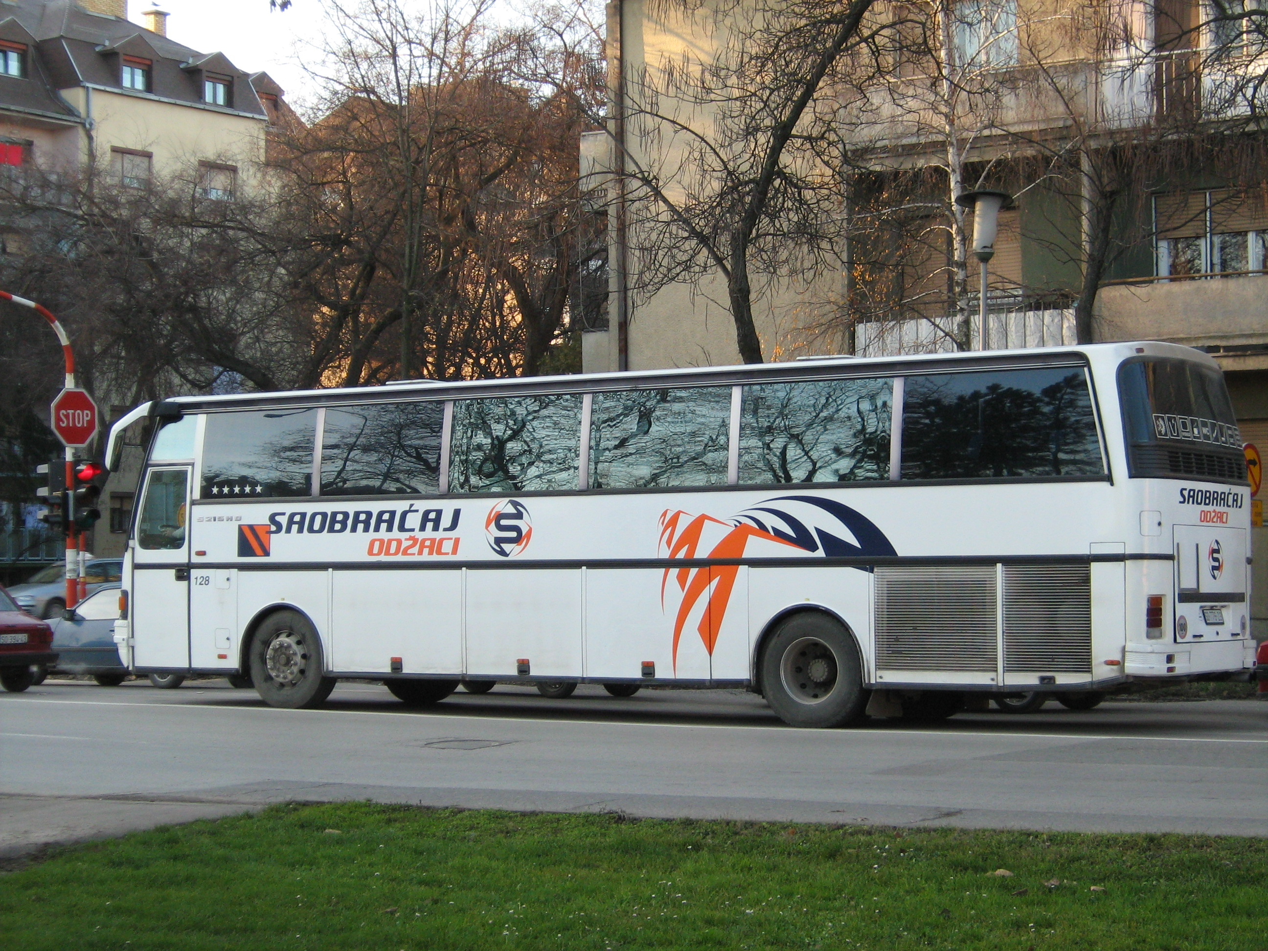 Setra S 215 HD bus (#128) in Sombor, Serbia. Saobracaj Odzaci (Саобраћај Оџаци А.Д.) operator.